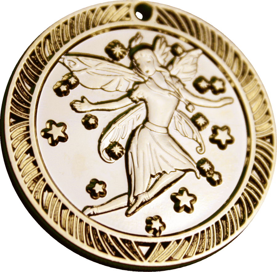 A gold tooth fairy coin is a best classical gift for a kid